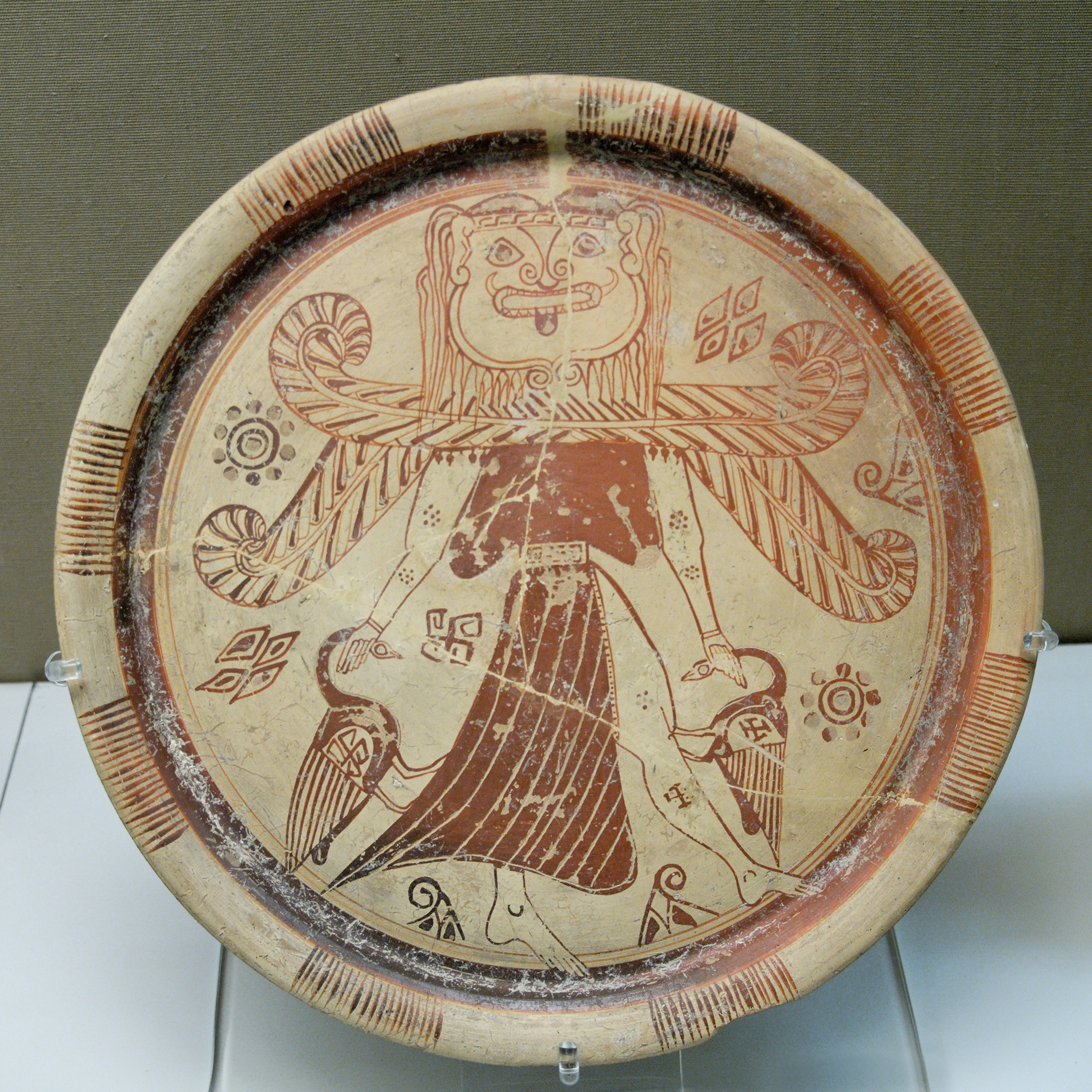 Winged goddess with a Gorgon's head wearing a split skirt and holding a bird in each hand, type of the Potnia Theron. Probably made on Rhodes. From Kameiros, Rhodes.